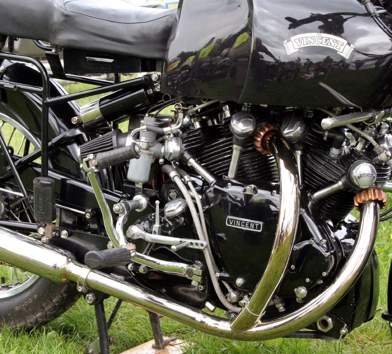 Vincent Black Shadow motorcycle engine closeup